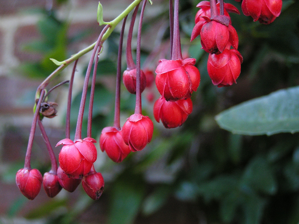 in the garden 27 7 08